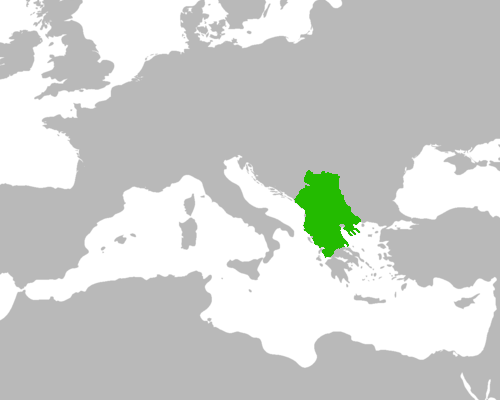 Serbia (dark green) and Bosnia (light green) during the time of Serbian Tsar Dushan ca. 1350AD.